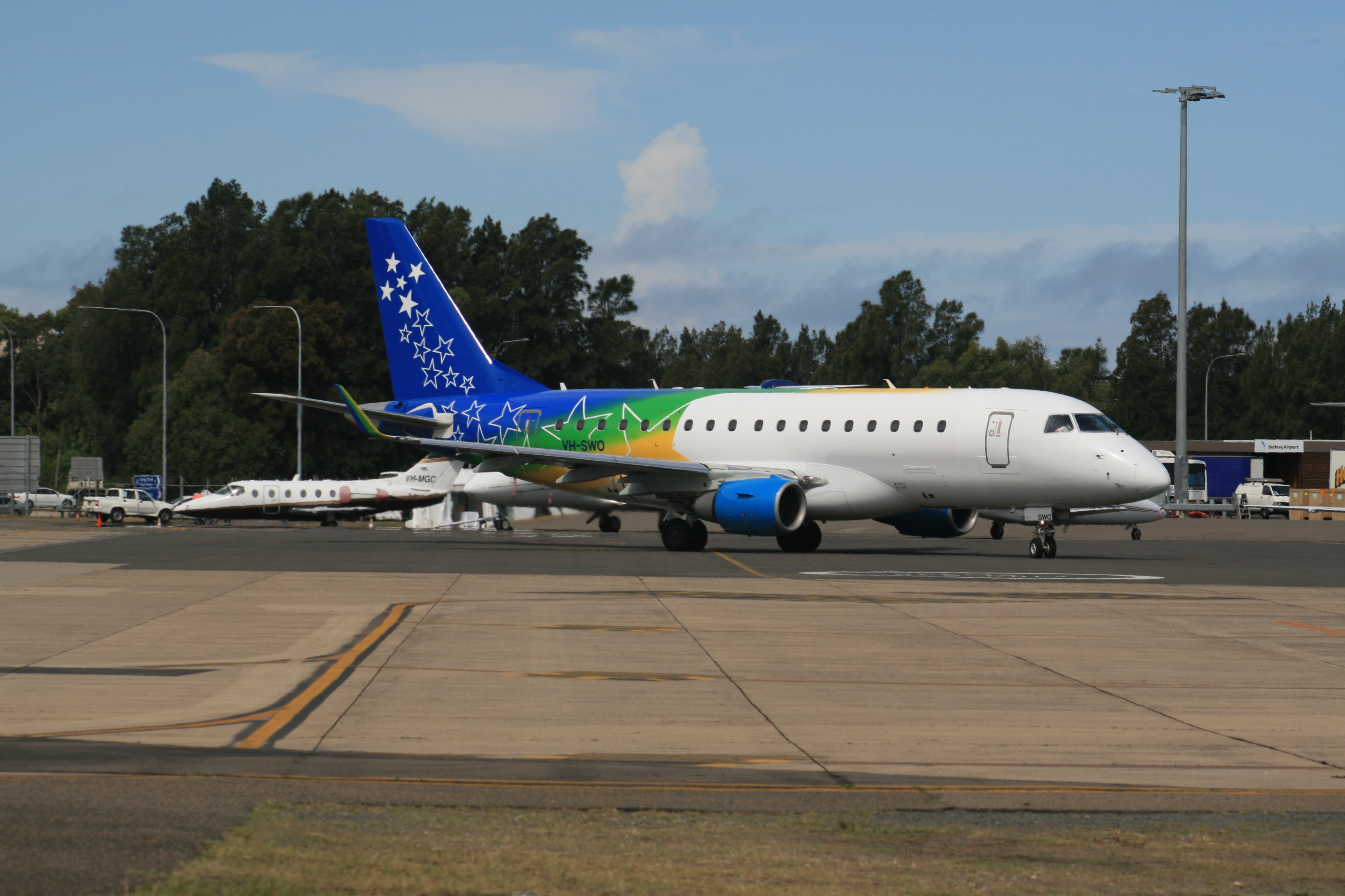 The Solomon Airlines titles have been fairly crudely removed from SkyAirWorld's VH-SWO.